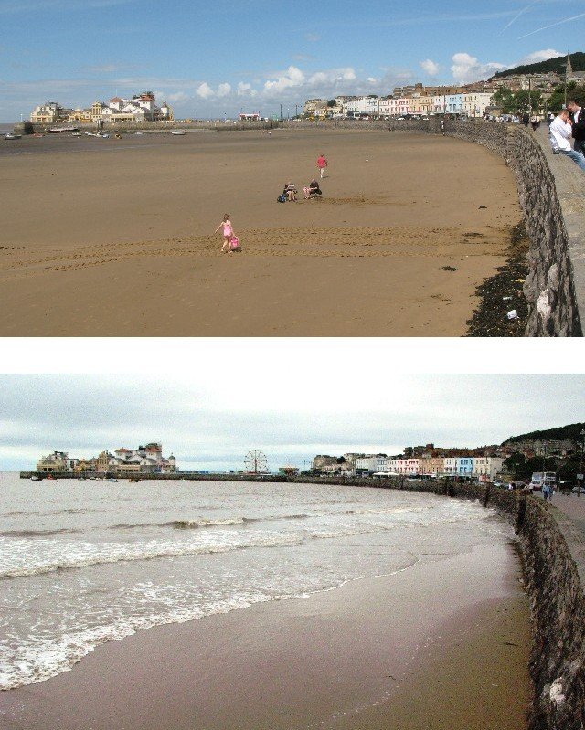 A composite photograph showing the view at the north end of Weston Bay to show the tidal range in the Bristol Channel. The upper image shows low tide, the lower image a neap high tide.